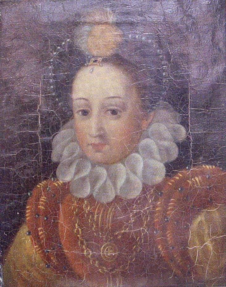 Lucretia Gyllenhielm, extramarital daughter of Prince Magnus Vasa of Sweden